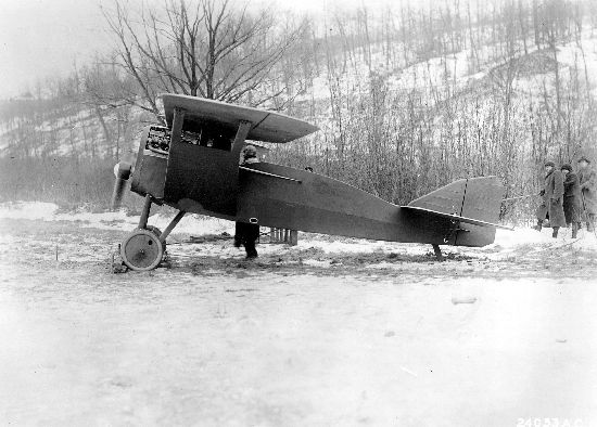 Side view of Thomas Morse MB-1 fighter aircraft, January 1928